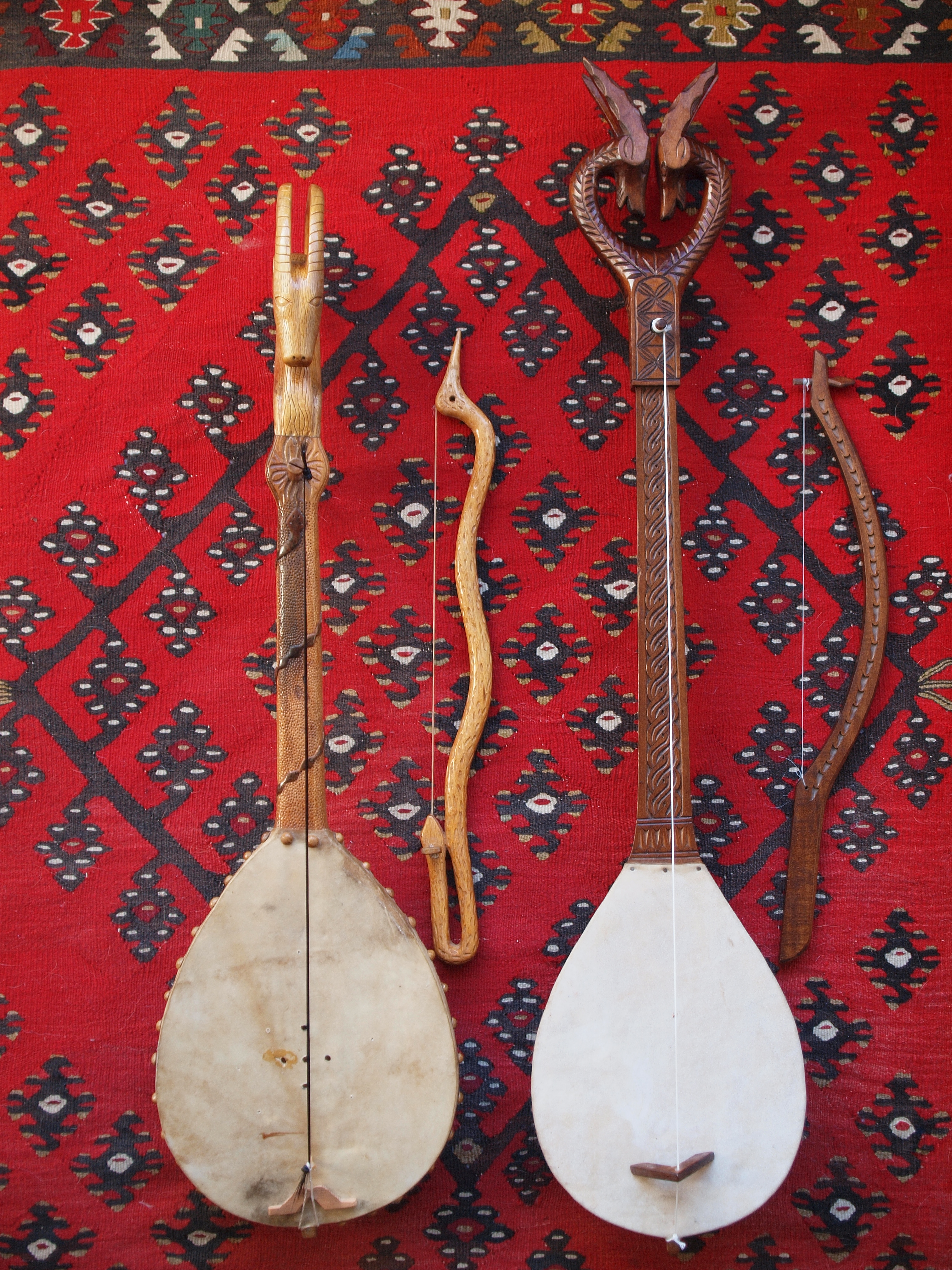 Balkan Gusle with Capricorn, bow on left in snake shape